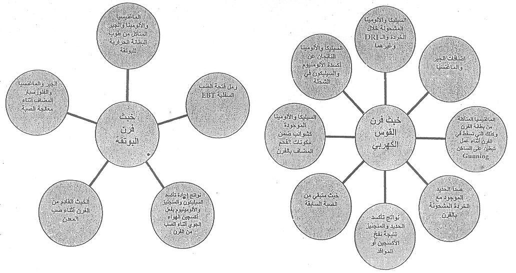 مصادر الخبث في فرن القوس الكهربي وفرن البوتقة